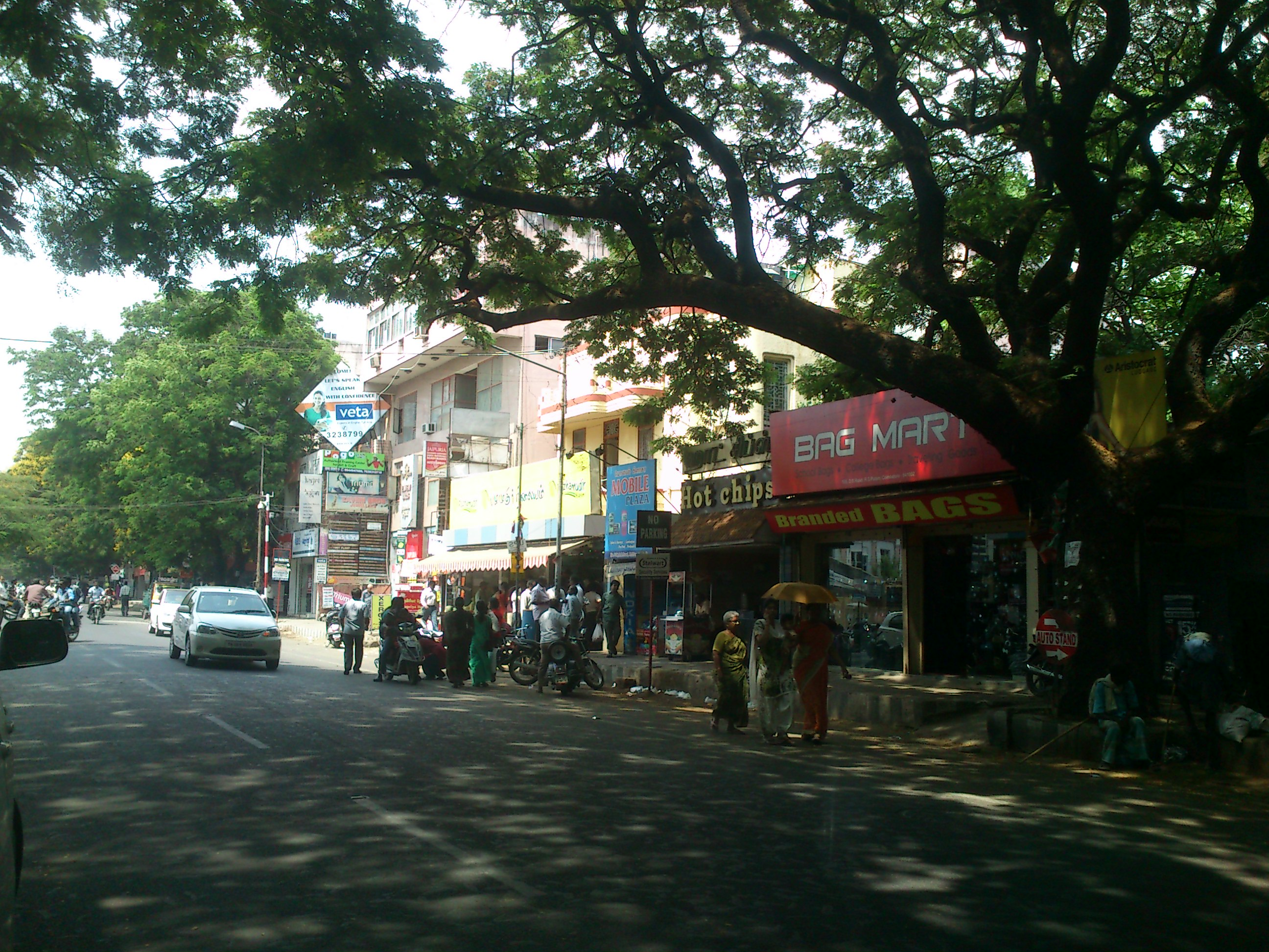 DB ROAD IN RS PURAM-TRESS AND ONLY TREES